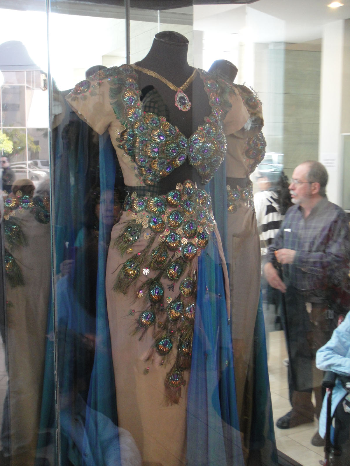 Hedy Lamarr "Delilah" peacock gown from the 1949 film Samson and Delilah at the Debbie Reynolds Auction Breaks Up Historic Hollywood Collection (The Paley Center for Media in Beverly Hills, Los Angeles, CA, USA). Costume designed by Edith Head.